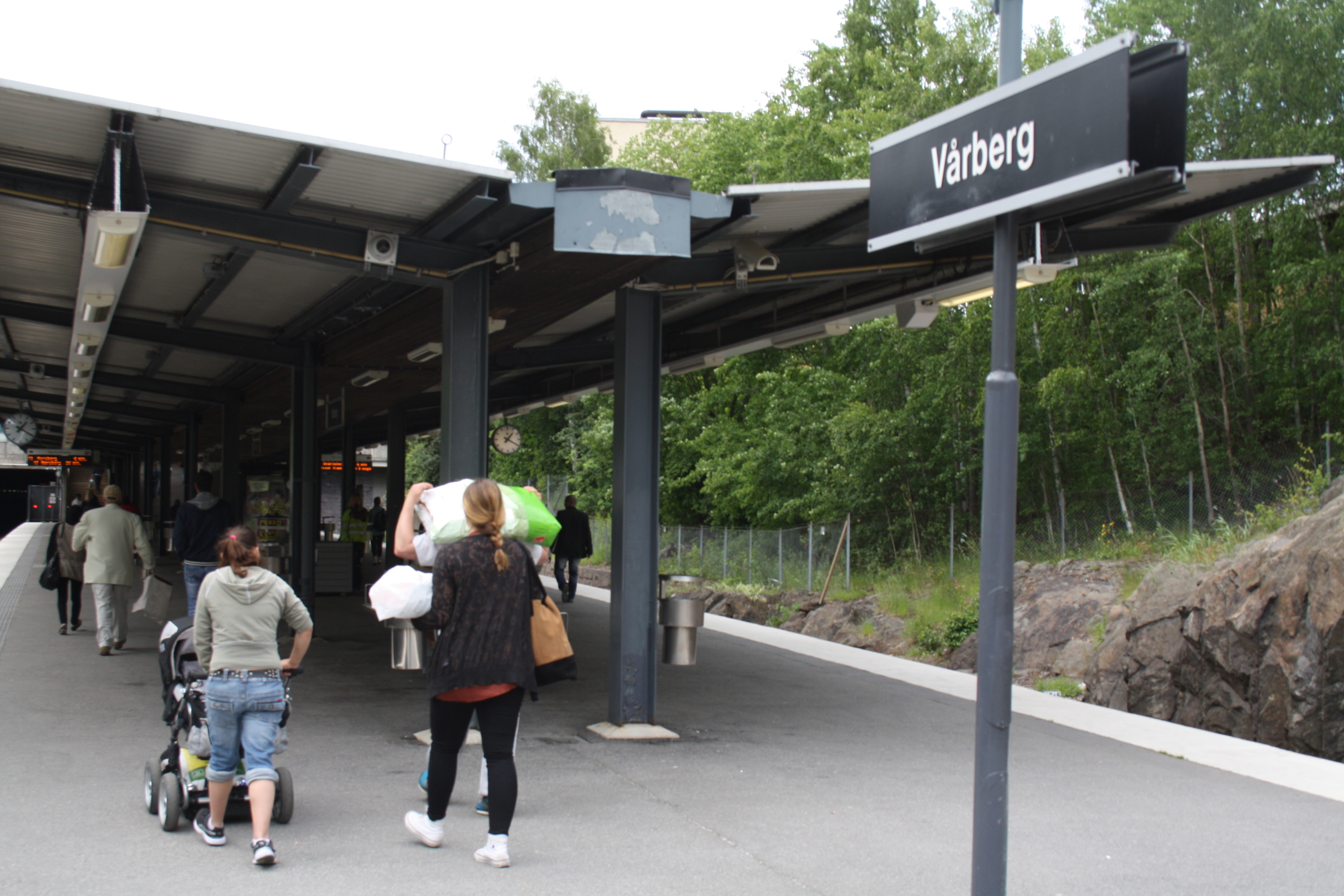 Vårberg, Stockholm